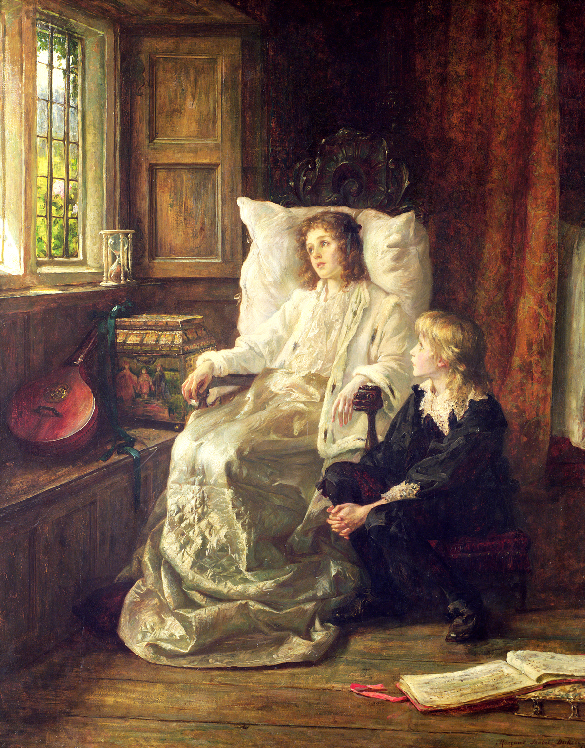 The Children of Charles I.' Lancashire, Oldham Art Gallery (exhibited in 1895, purchased in 1896) - After the execution of the king, his younger children, Elizabeth and Henry, were confined in Carisbrooke Castle.